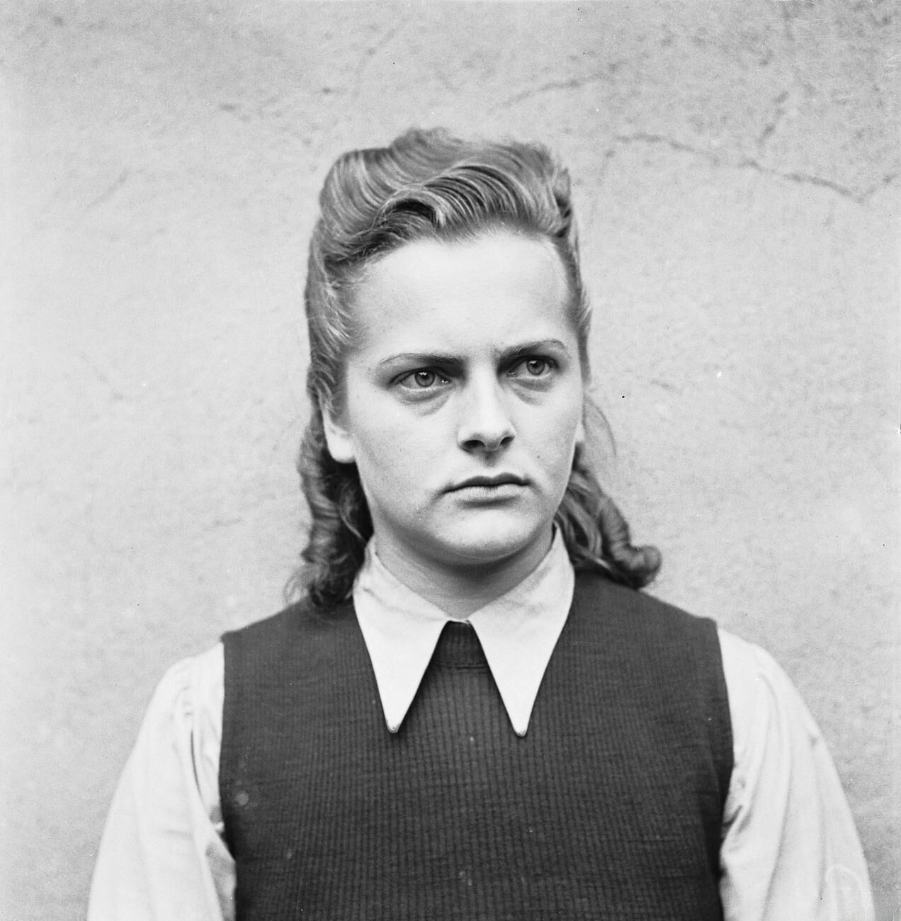 Mugshot of Bergen-Belsen guard Irma Grese (1923-1945) at Celle awaiting trial, August 1945. A similar photo can be found in the Imperial War Museum collection as BU 9700.